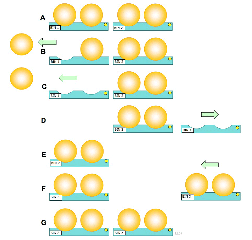 Two Bin principle. Description of the Two Bin process.